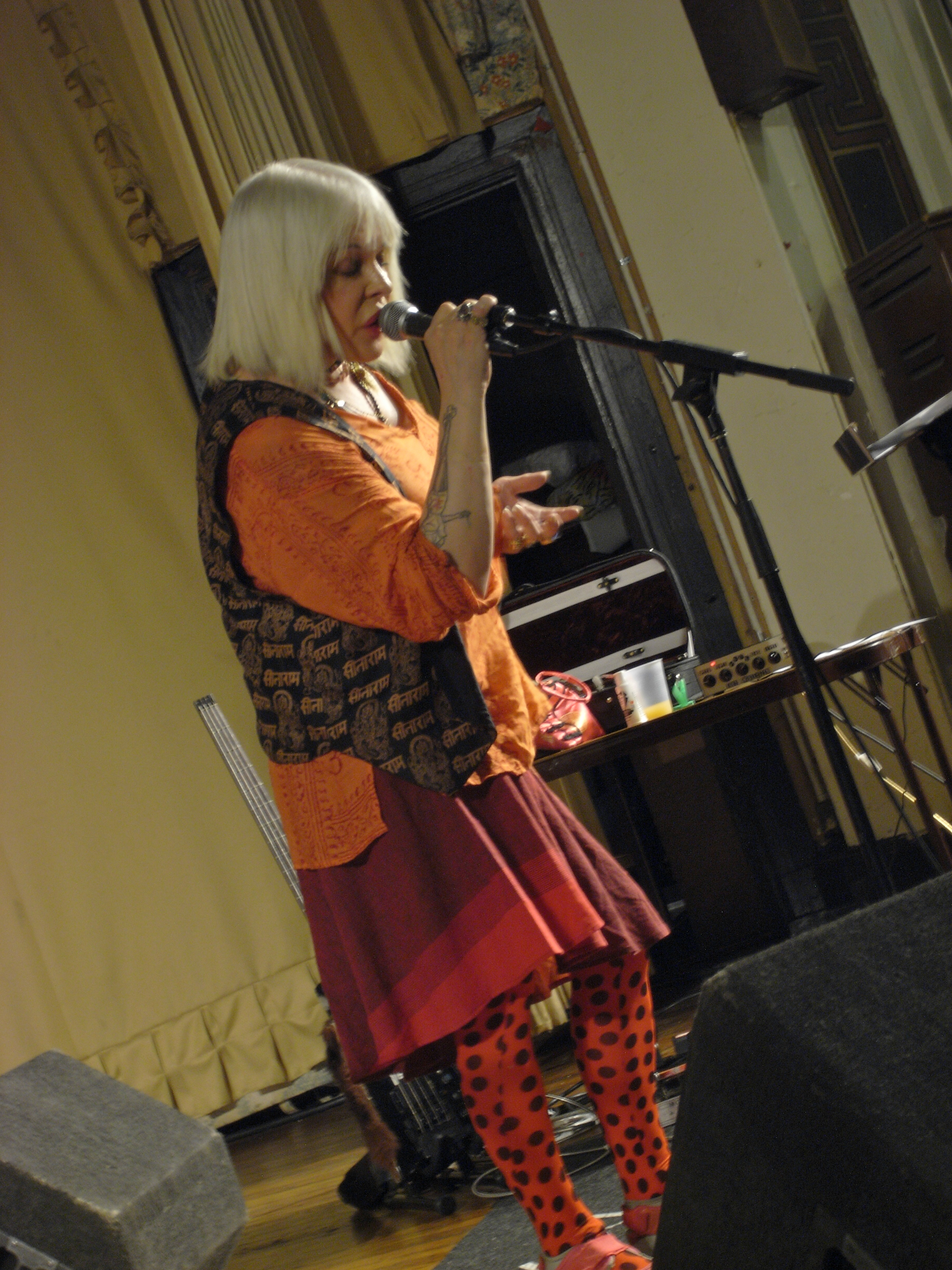 Genesis P-Orridge performing with Throbbing Gristle in 2009.